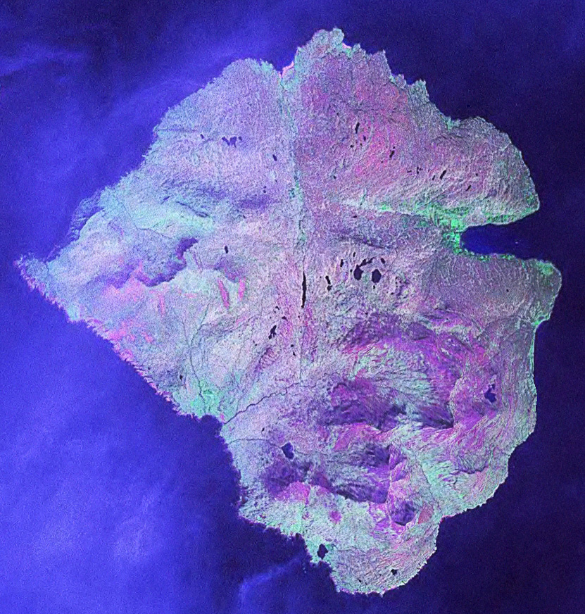 Screenshot from World Wind software displaying NASA Landsat imagery. The website says "The Landsat Global Mosaic, Blue Marble, and the USGS raster maps and images are all Public Domain." (